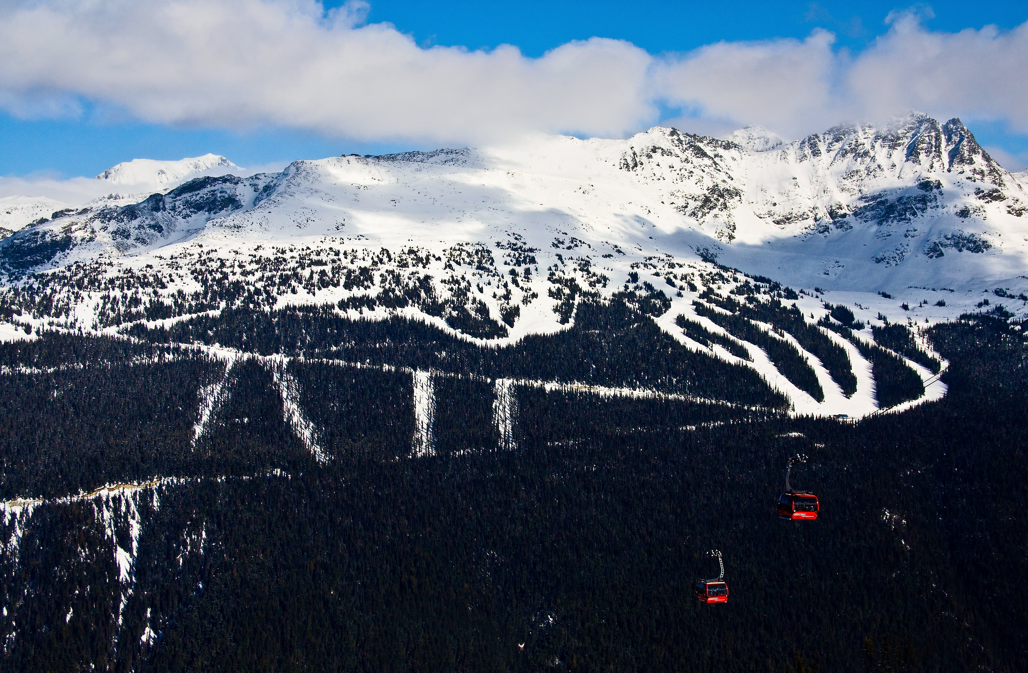 View from the Whistler gondola terminal across to Blackcomb mountain with the Peak-2-Peak Gondola in transit.